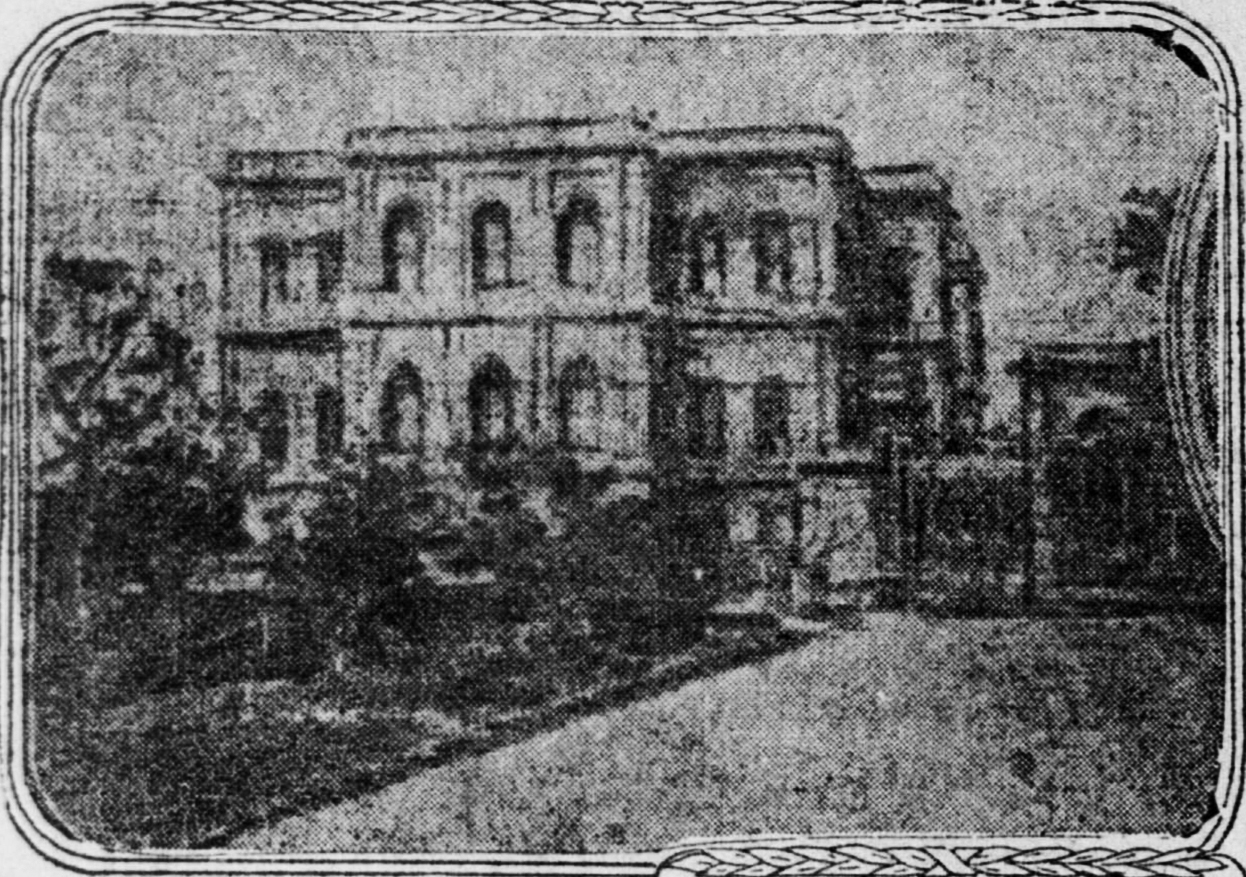 Newspaper illustration of one of the buildings of Yıldız Palace, probably the Malta Pavilion, in Istanbul, Ottoman Empire (present-day Turkey). Original caption: Yildiz Kiosk, the present residence of the sultan, which is the objective point of the revolutionists ...